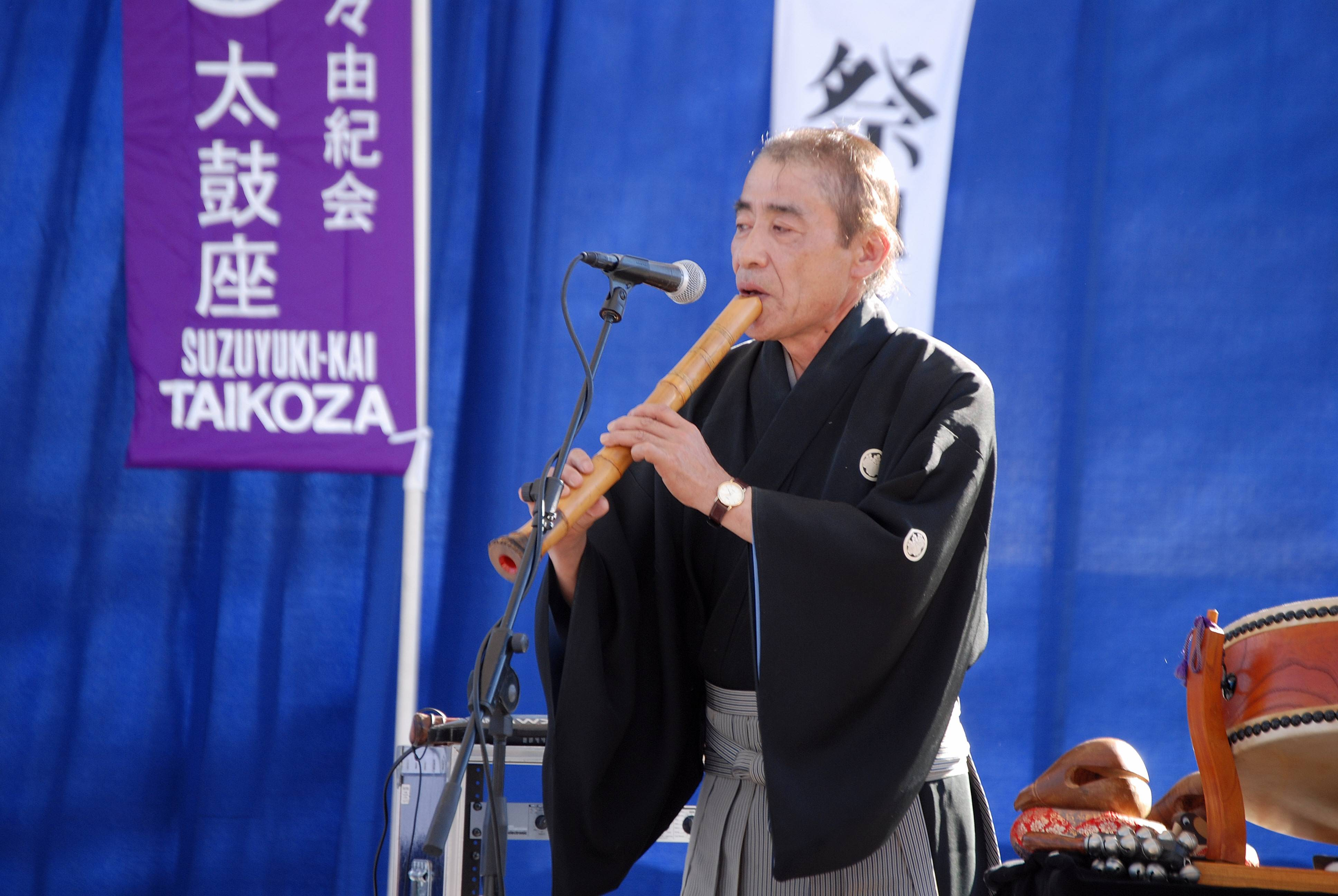 Masakazu Yoshizawa, Japanese flautist and musician